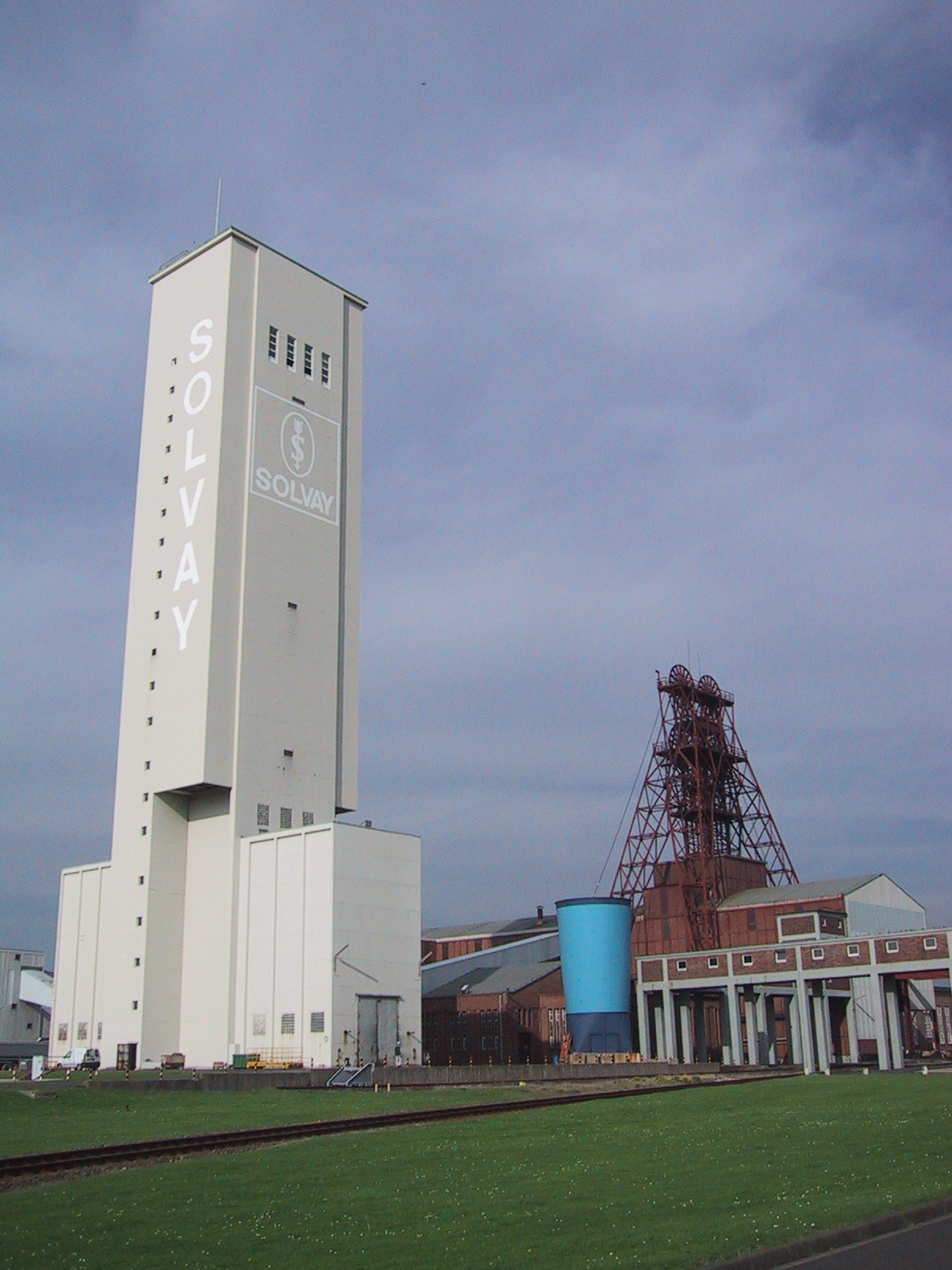 The salt mine in the city Rheinberg, North Rhine-Westphalia, Germany